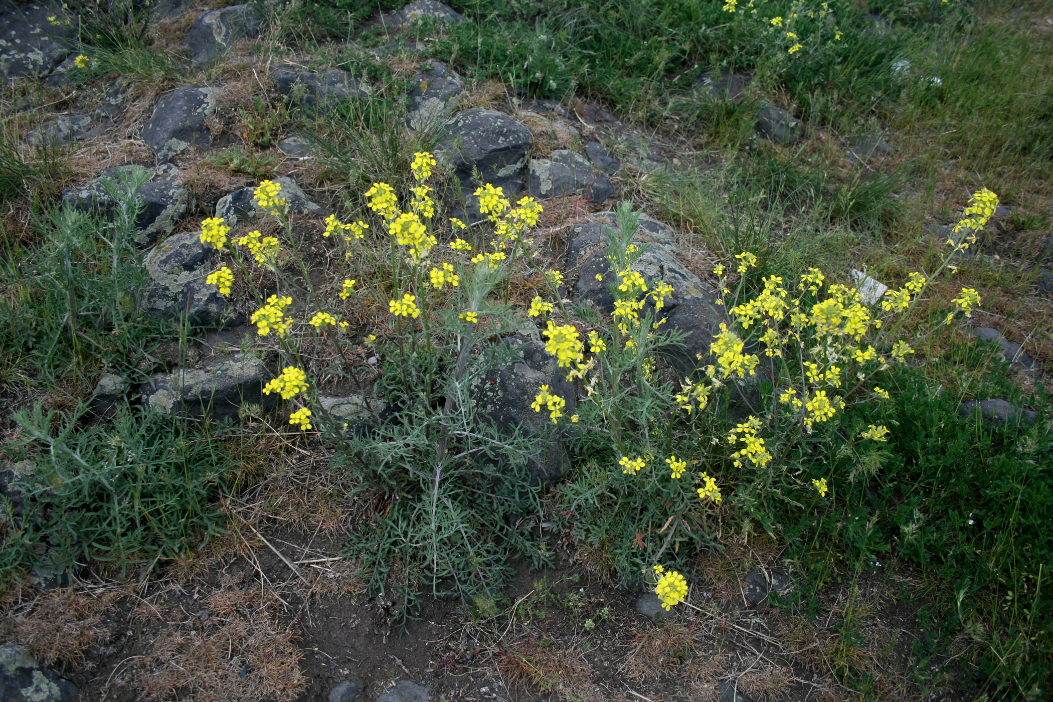 Plant (Alyssum montanum) on hill Radobýl near Litoměřice, Czech republic